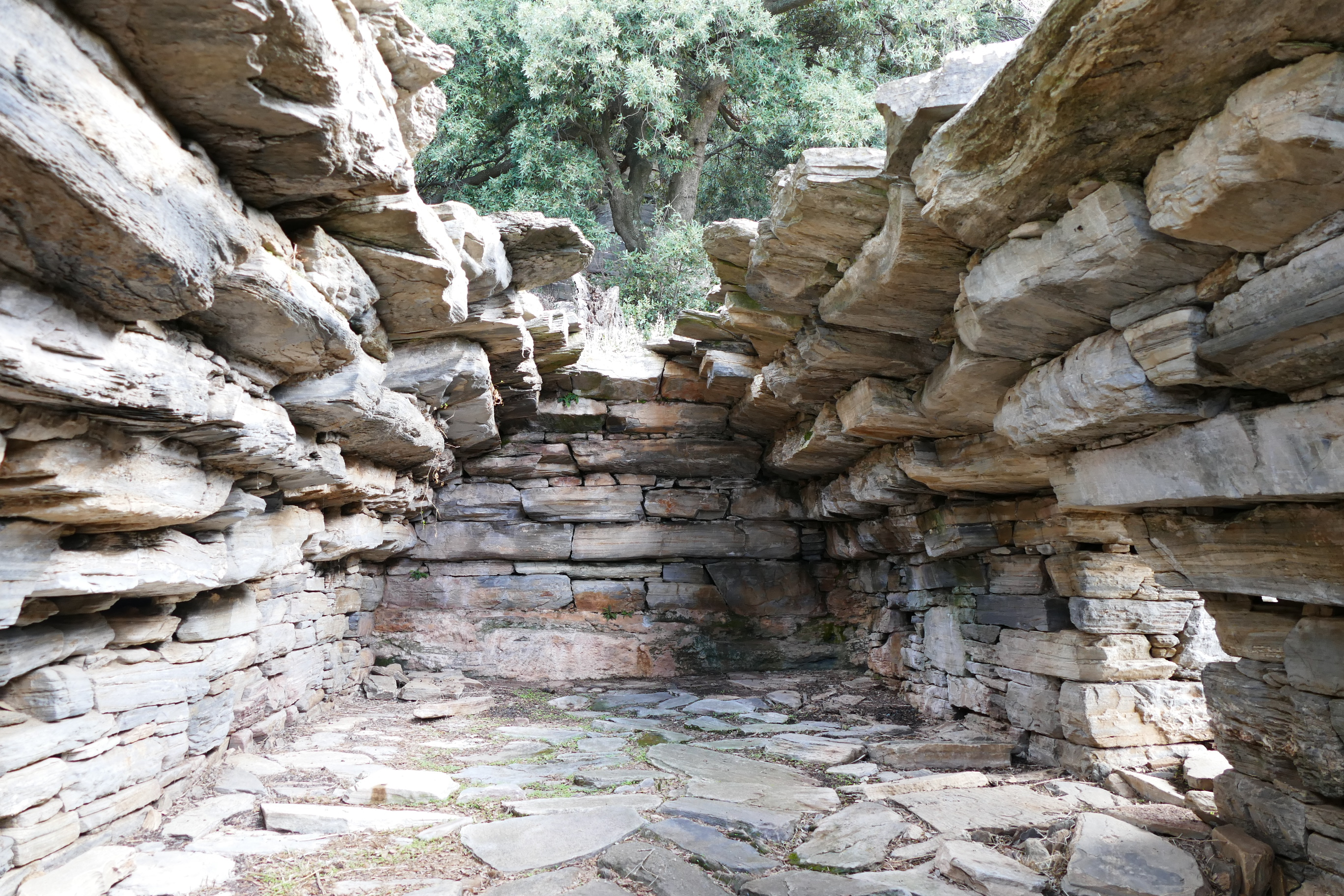 Dragon-House Palli-Lakka building North near Styra/Euboia/Greece